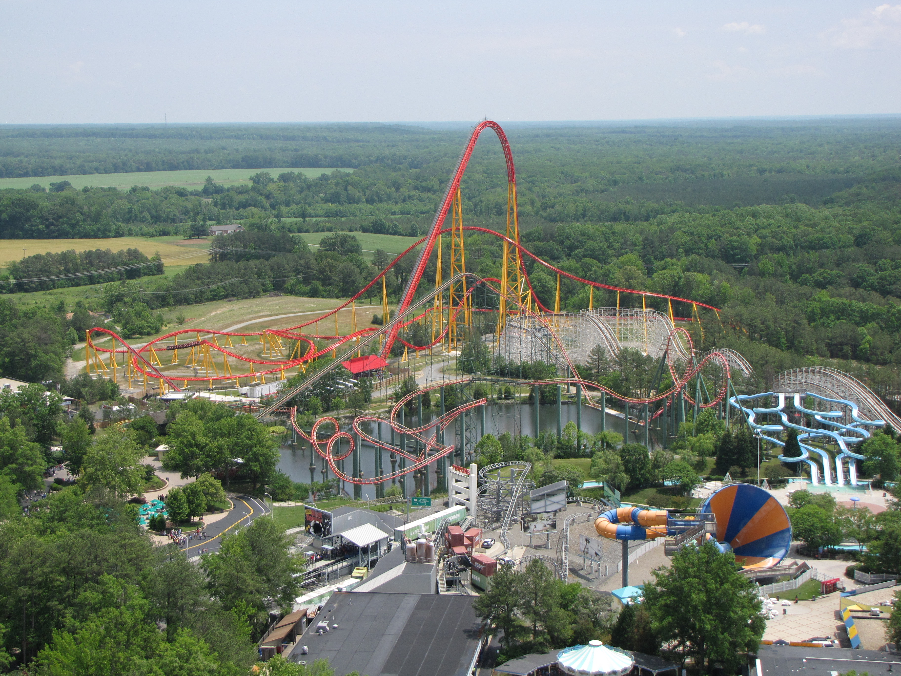 Intimidator 305 ride at Kings Dominion, as seen from Eiffel Tower replica.